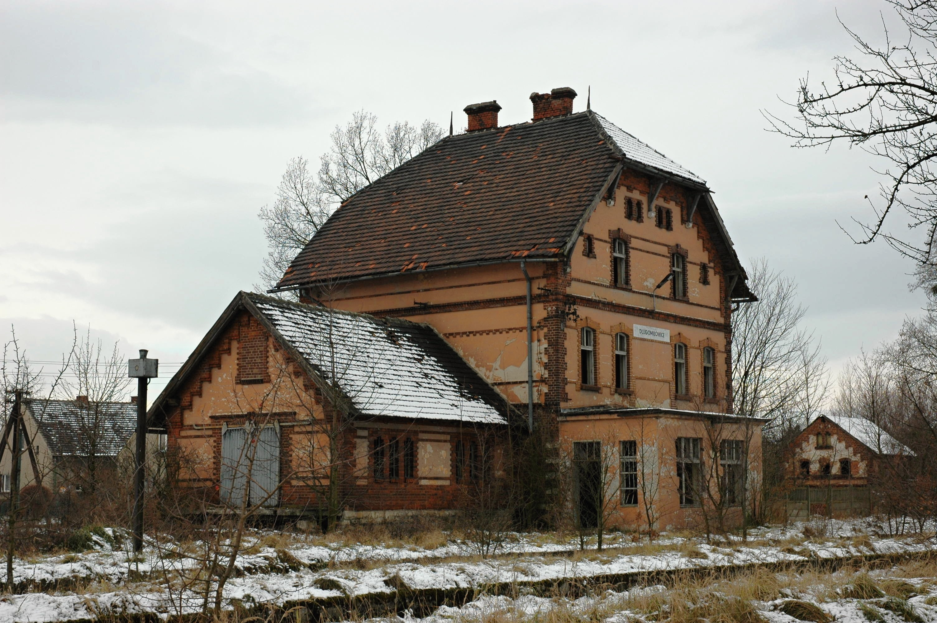 Długomiłowice railway station, Poland